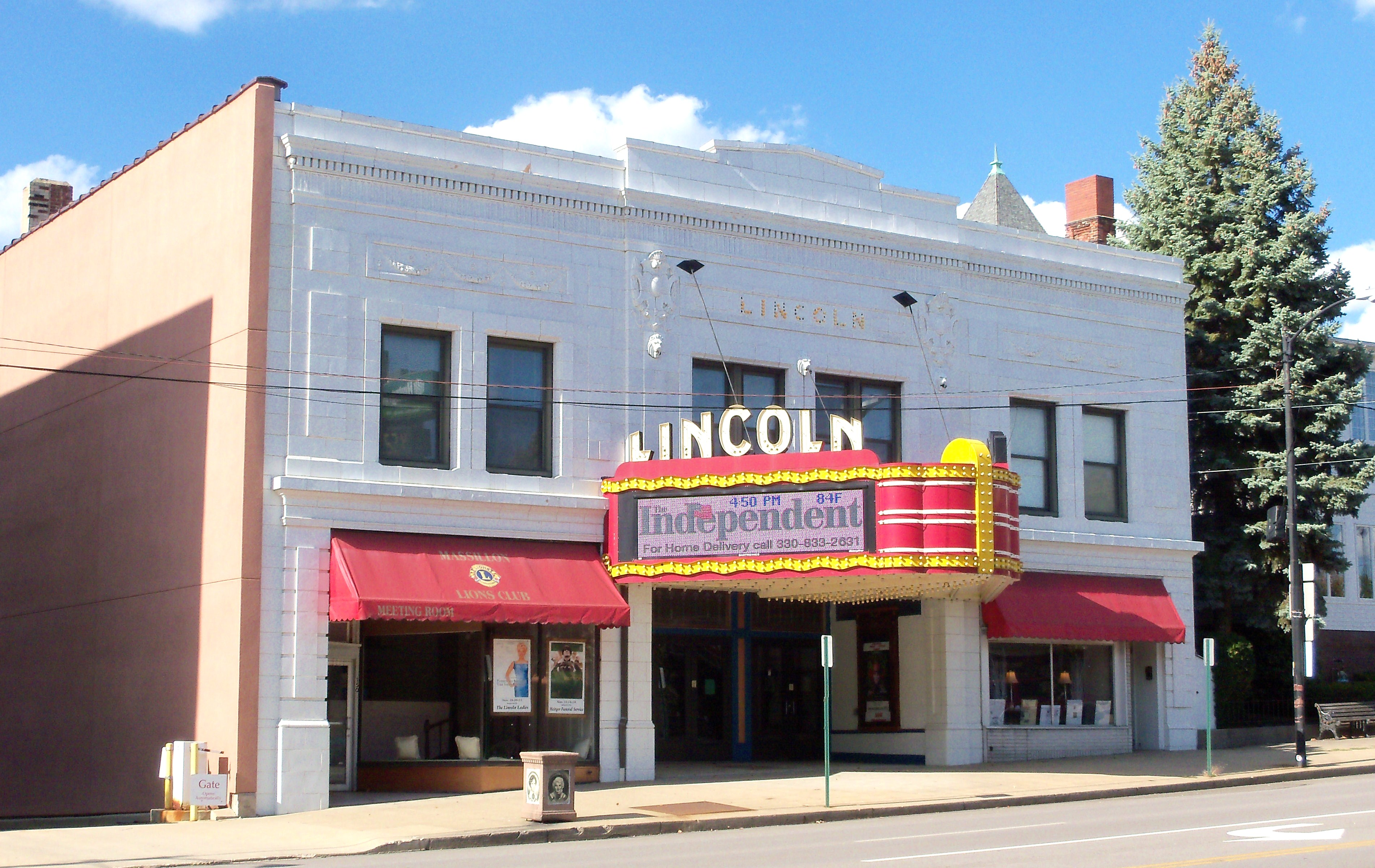 A theater by architect Guy Tilden [1] along the Lincoln Highway in Massillon, Ohio.